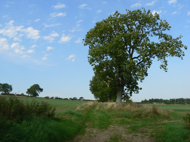 Devil's causeway This farm track follows the course of a Roman road known locally as the Devil's Causeway.